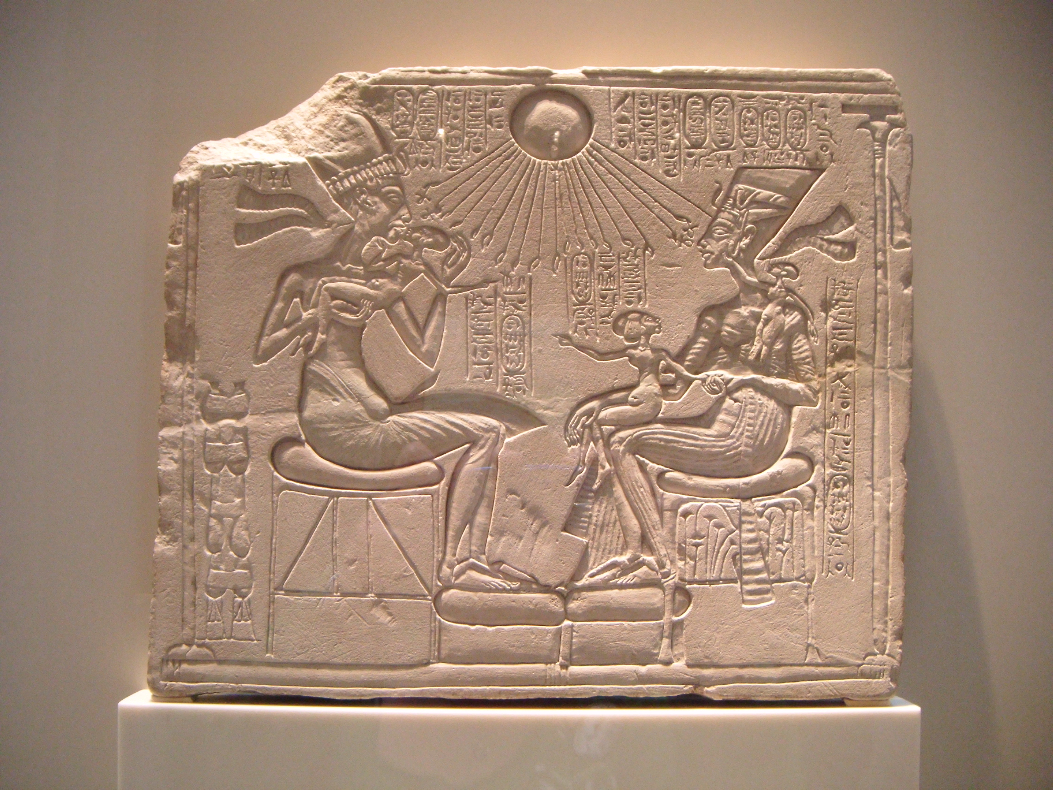 Ancient Egypt